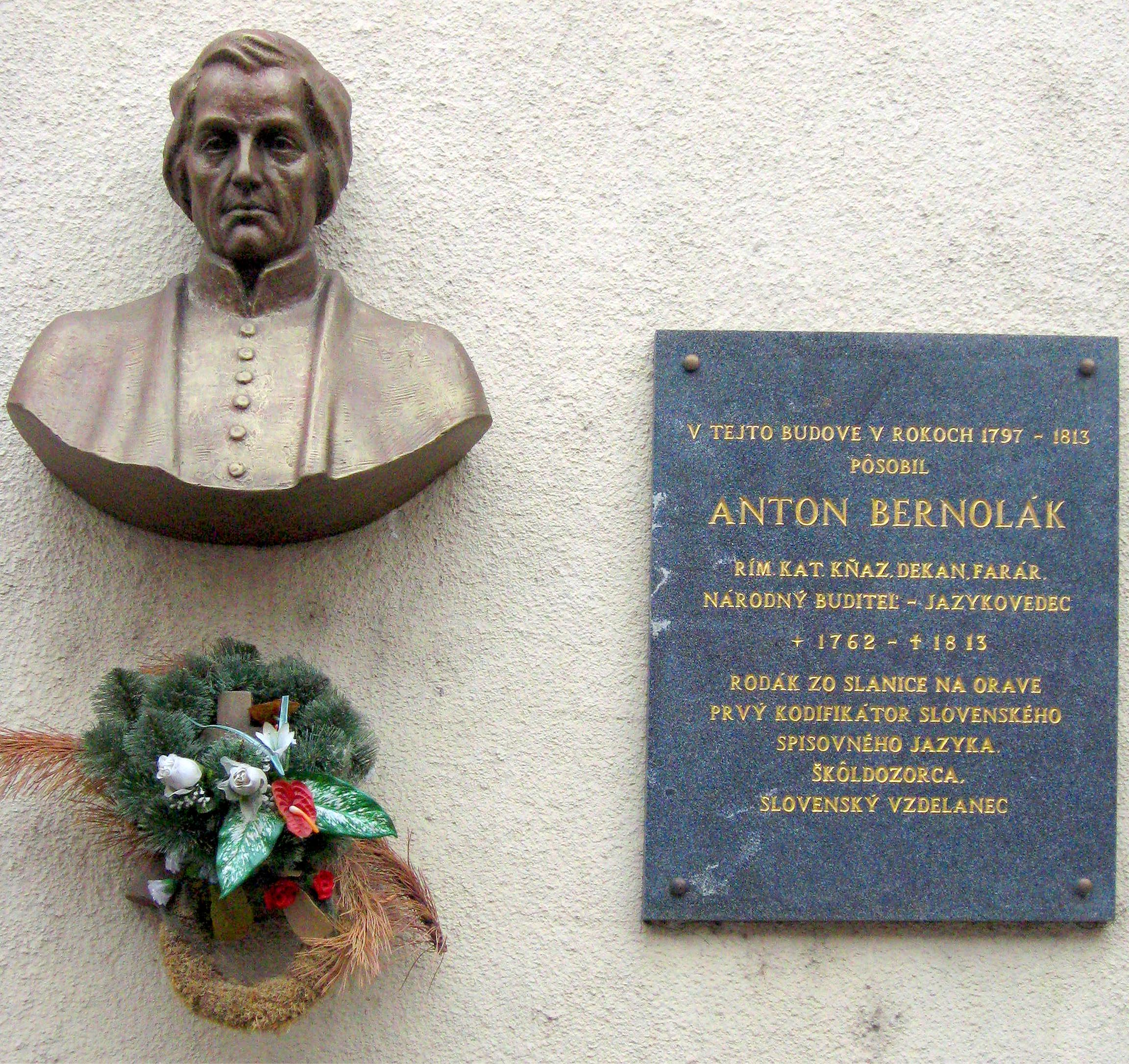 Memorial plaque of Anton Bernolák on Marianum building in Nové Zámky